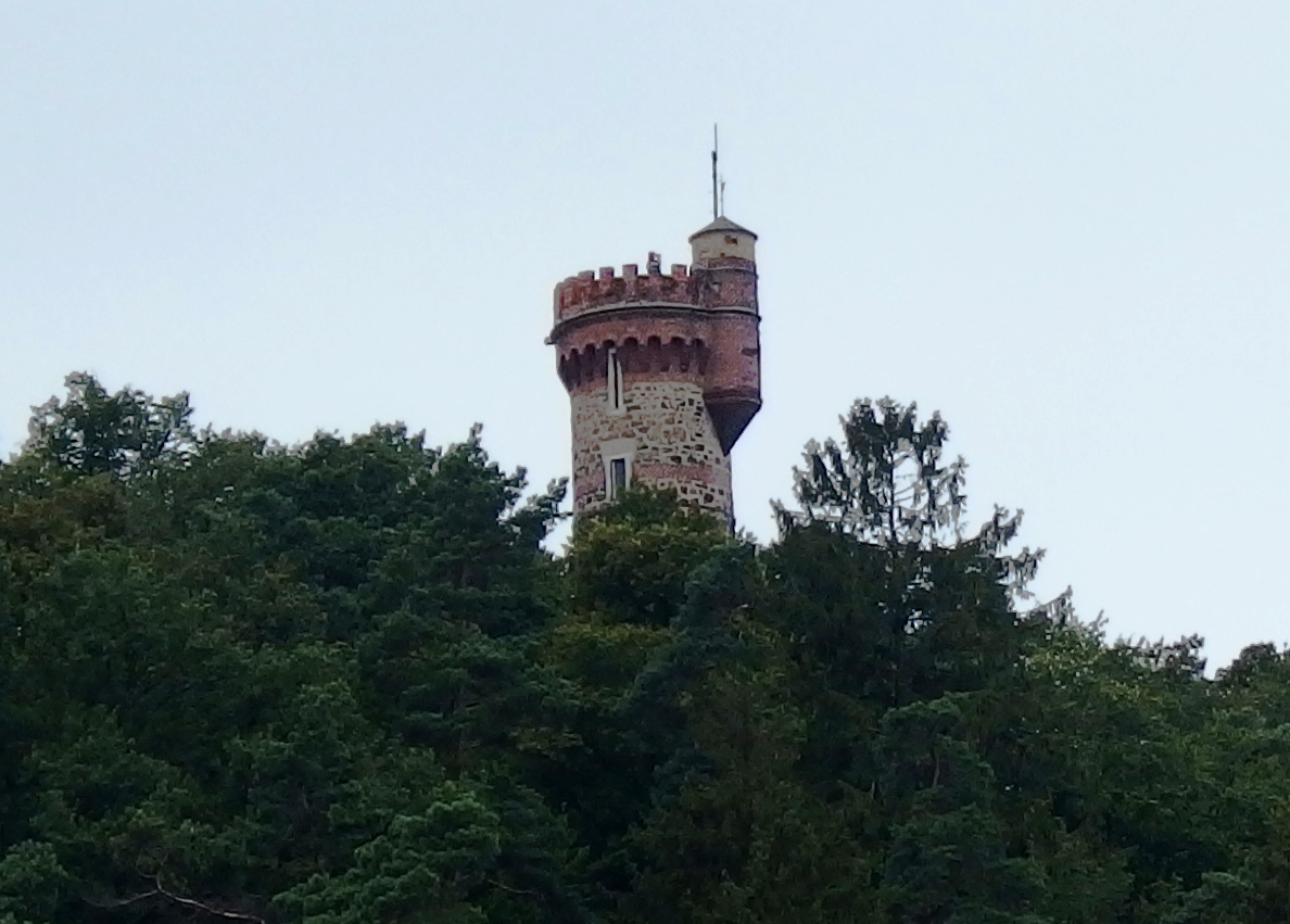 Krnov, Bruntál District, Czech Republic. Cvilín (observation tower).